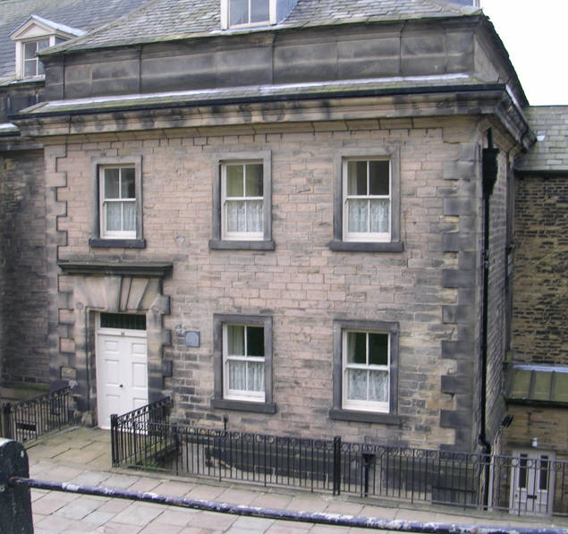 No. 34 Fulneck, Pudsey, West Yorkshire, England. This is the birthplace of Benjamin Latrobe, architect of the White House, who lived 1764-1820.